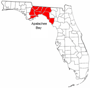 Map of Big Bend Coast, Florida, USA